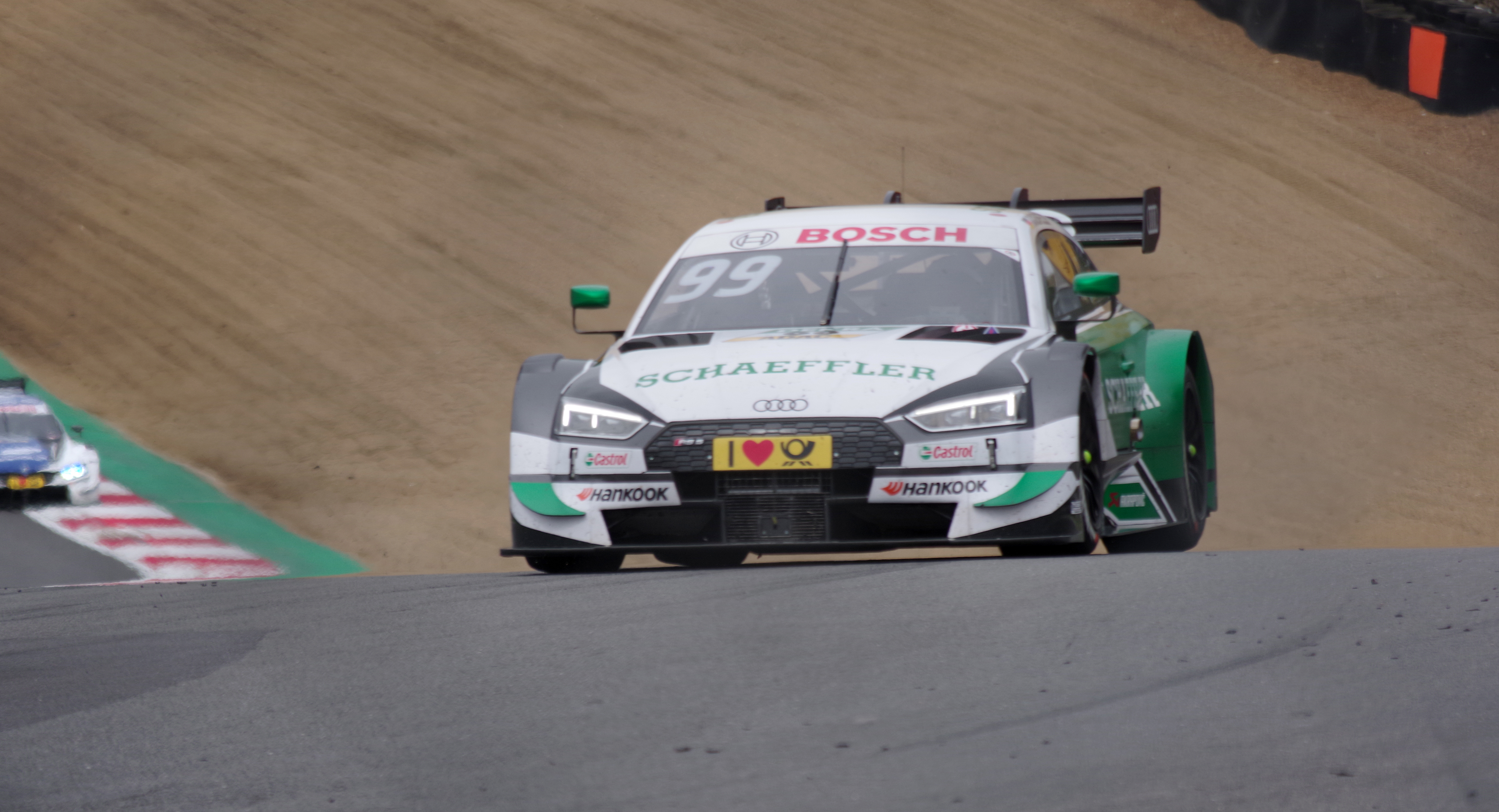 2018 Deutsche Tourenwagen Masters, Brands Hatch.